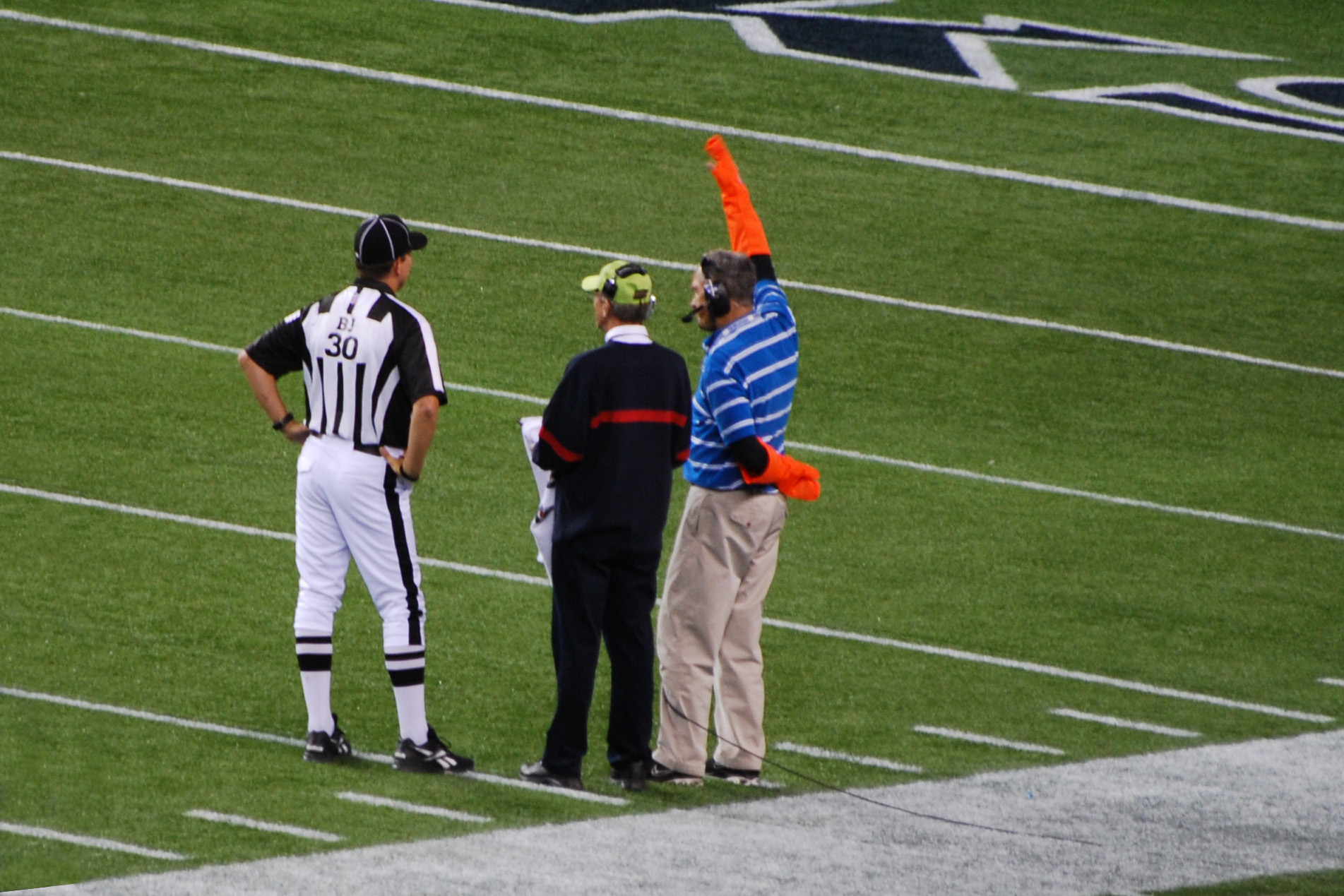 National Football League timeout officials, the back judge (striped shirt) confers with the NFL sideline television coordinator (green hat) and the network television coordinator (orange sleeves.) The network coordinator is in communication with the television director and signals a request for a commercial break by crossing his arms. An on-field official will call a timeout at the next opportunity. The network coordinator holds his arm up during the break and lowers it when the commercial is over. The NFL coordinator has a list of all the scheduled breaks and ensures they are taken on time with minimum delay in the game. The officials are standing at the twenty yard line near the South end zone of Qwest Field, the home of the Seattle Seahawks. This image was used in the September 27, 2012 issue of Forbes magazine, in "The NFL Refs Are Back" by Tom Van Riper. [1] Photo by Michael Holley (2010) with a Nikon D60 DSLR.